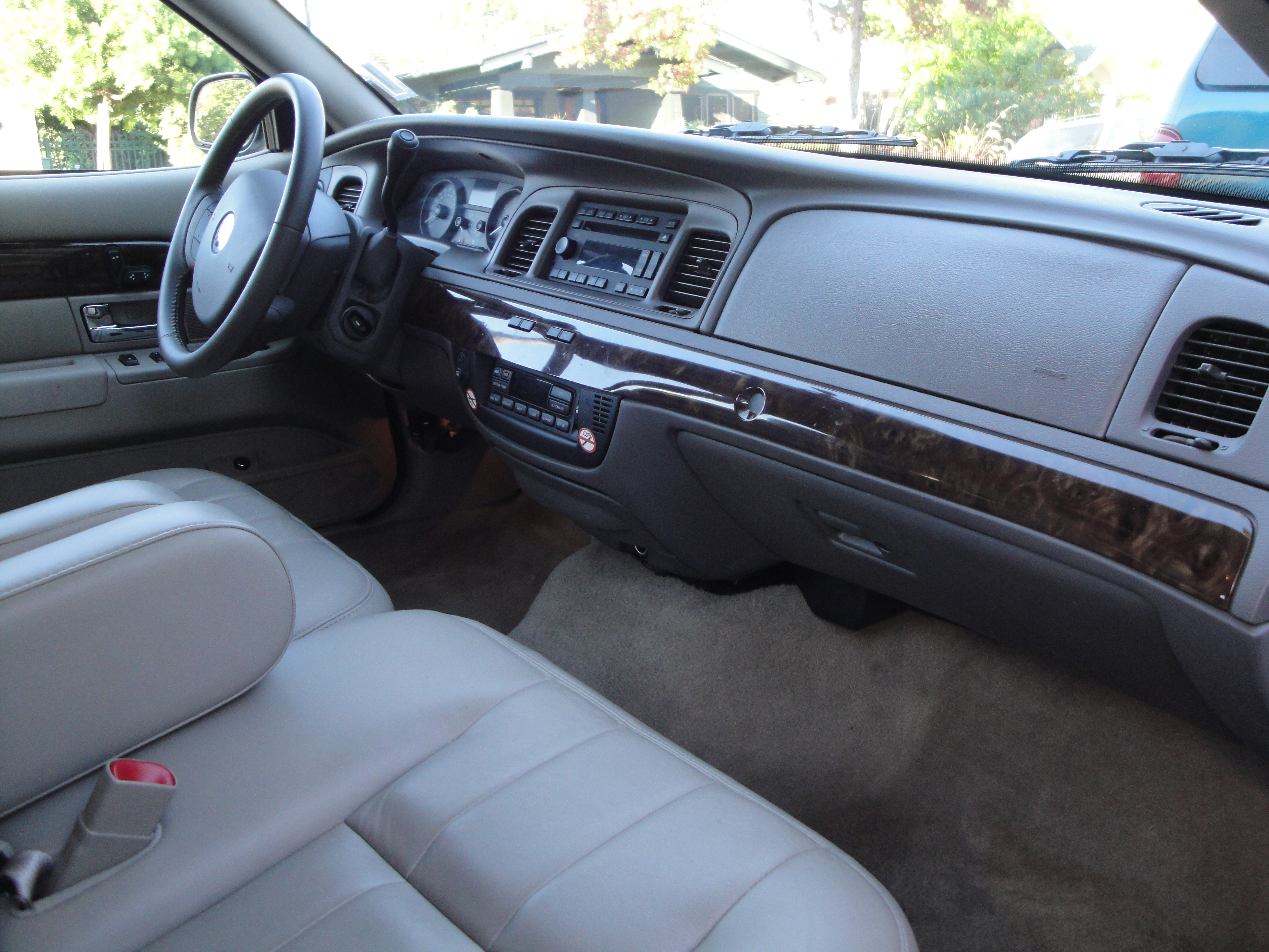 2011 Mercury Grand Marquis